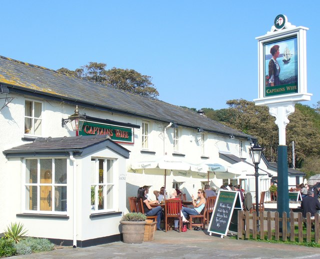 The Captain's Wife Formerly Sully House, now a popular pub overlooking Sully Island. It is reputed to be haunted by the wife of a sea captain who buried her, unnannounced, in a nearby wood rather than admit she died aboard his ship. Having a female aboard a seagoing ship was supposed to be unlucky in days of yore.